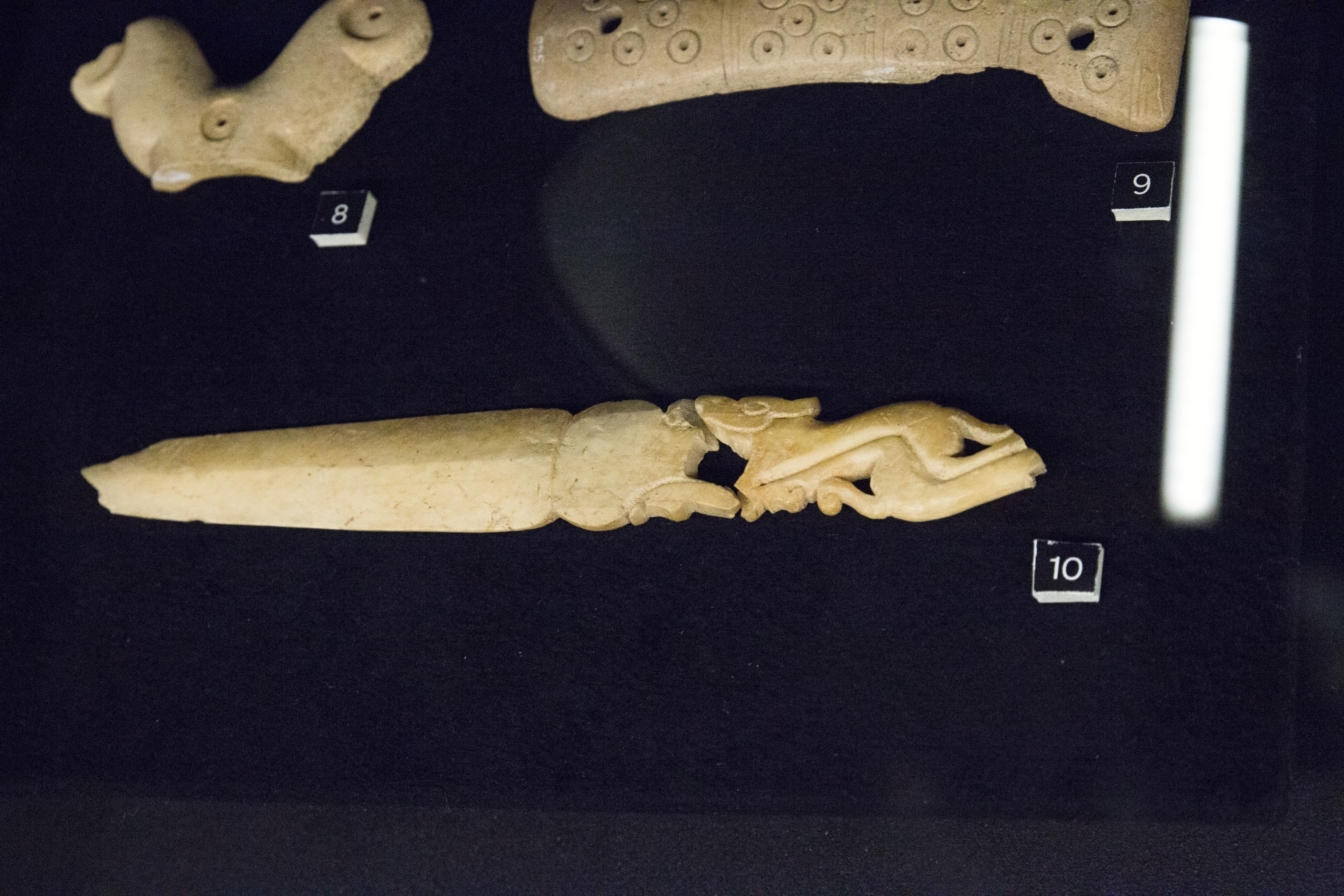 Antler blade with handle, from Soběsuky (Chomutov district). Early La Tène art, 5th century BC. Žatec regional Museum. The Celts, Exhibition in the National Museum in Prague.